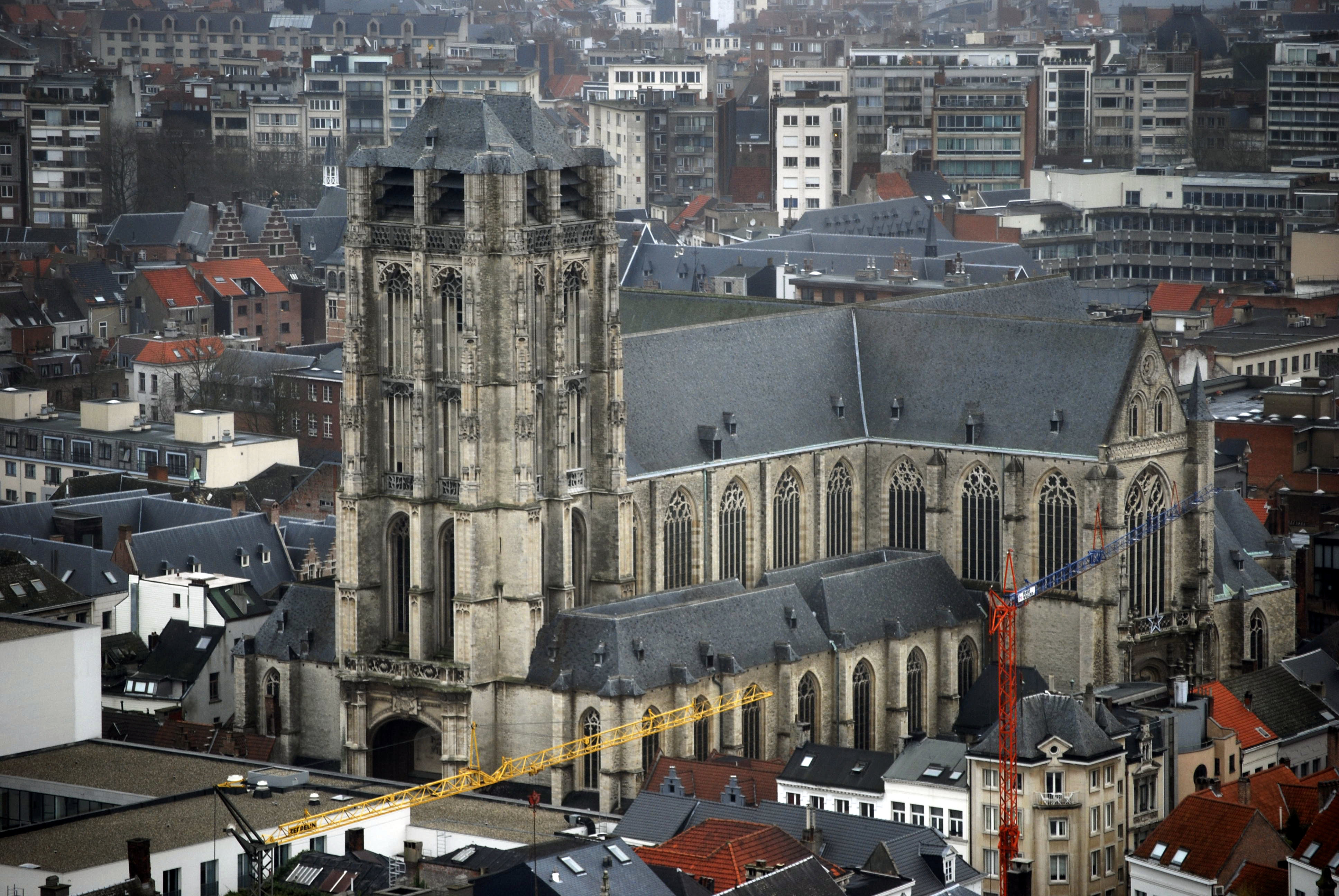 The church of Saint James in Antwerp, Belgium, seen from the panorama floor of the Boerentoren building. The tower is on the west end of the church. Nikon D60 f=102mm f/4.8 at 1/30s ISO 200. Colour corrected in Nikon ViewNX 1.0.3.